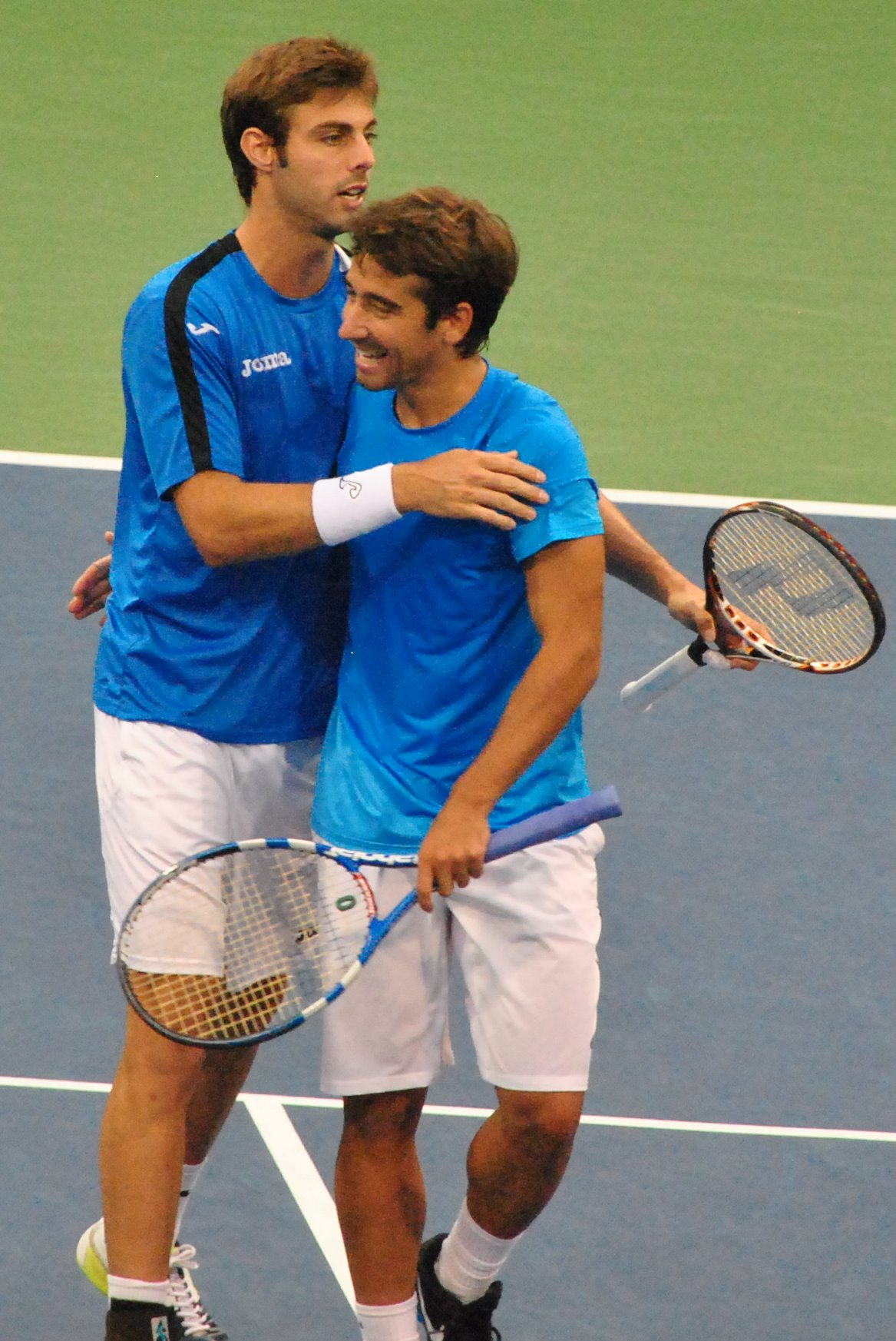 Marcel Granollers & Marc López at the US Open 2012.